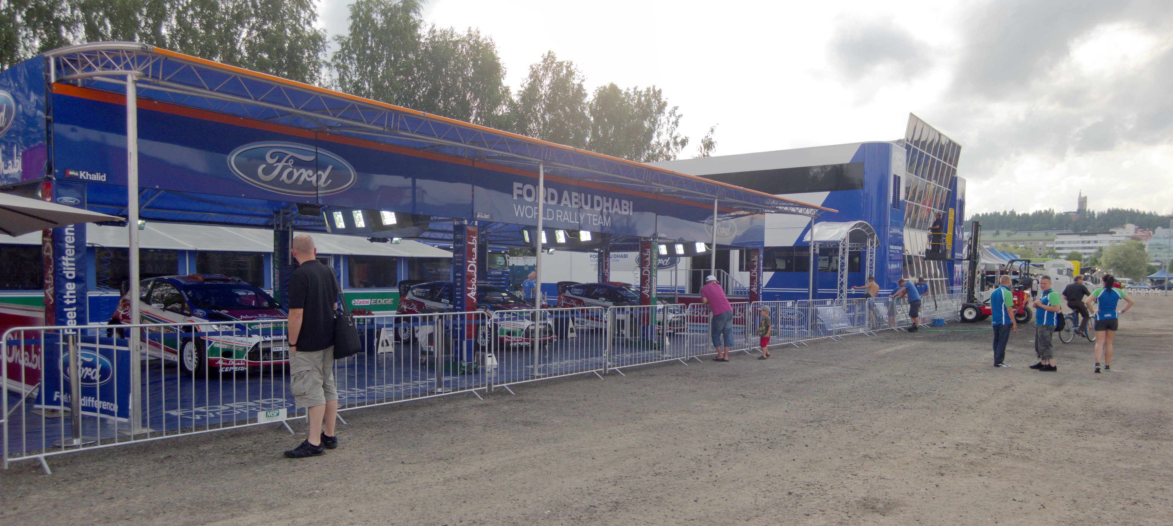 The Ford team at the Service Park of 2011 Rally Finland in Jyväskylä, Finland.